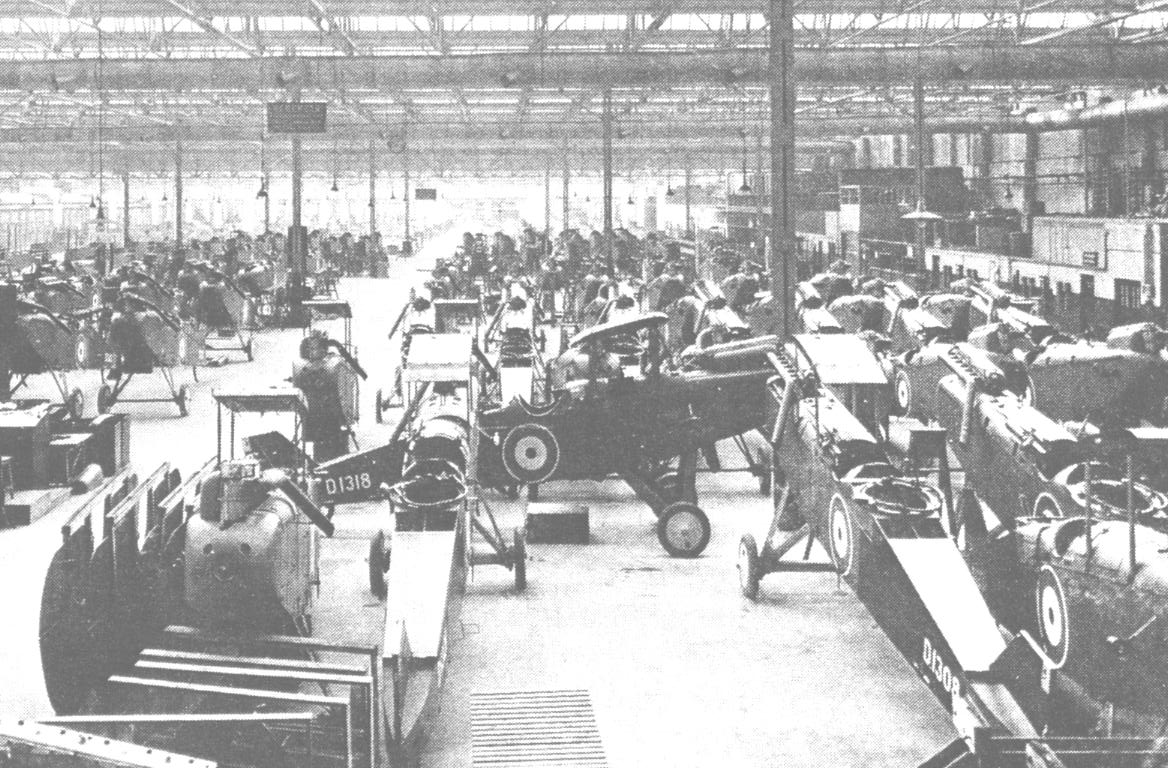 National Aircraft Factory No.2, Heaton Chapel, Stockport, Cheshire, England